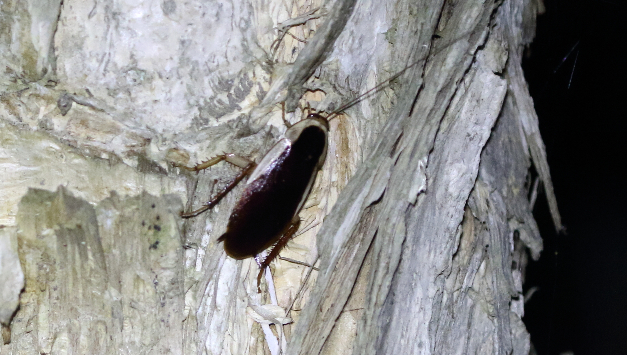 Methana parva. Species of insect.